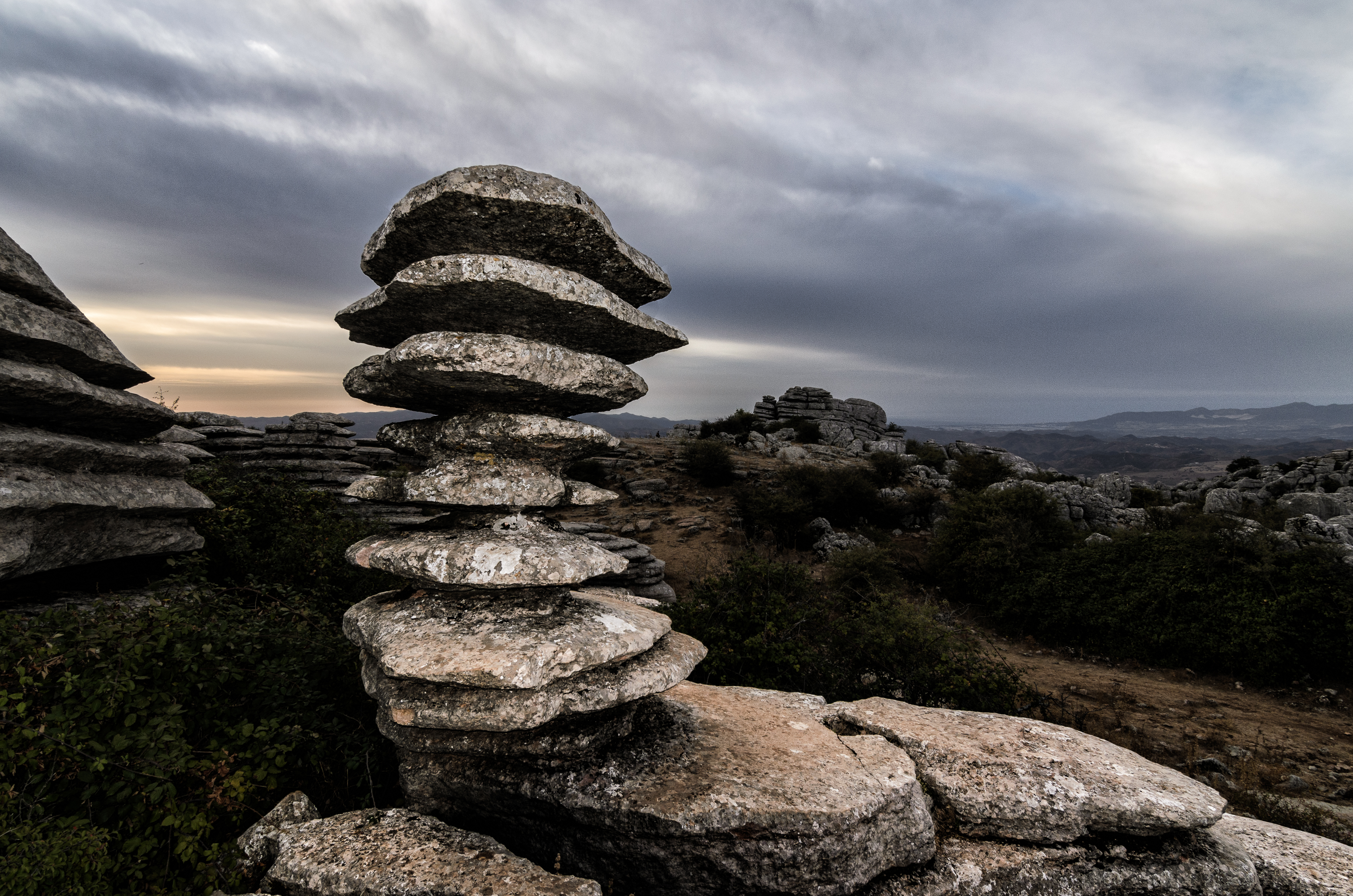 The Screw, Torcal de Antequera Natural Park, province of Málaga, Spain.